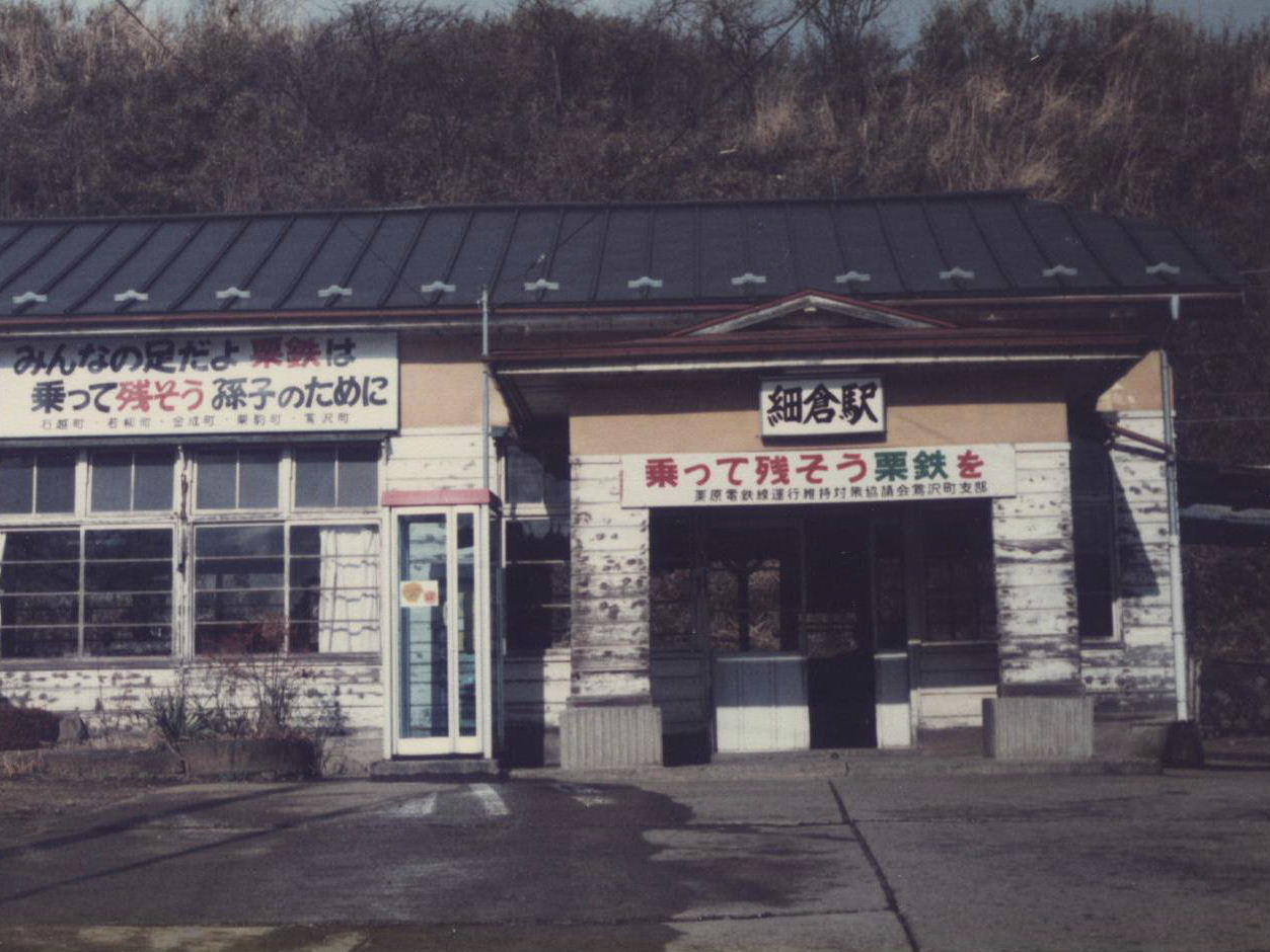 Kurihara Dentetsu Hosokura Station